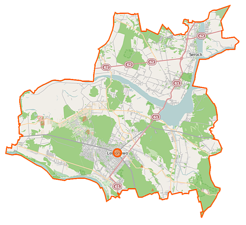 Map of Powiat legionowski, Poland This map of Powiat legionowski was created from OpenStreetMap project data, collected by the community. This map may be incomplete, and may contain errors. Don't rely solely on it for navigation. Border coordinates52.571820.7271←↕→21.161752.3286